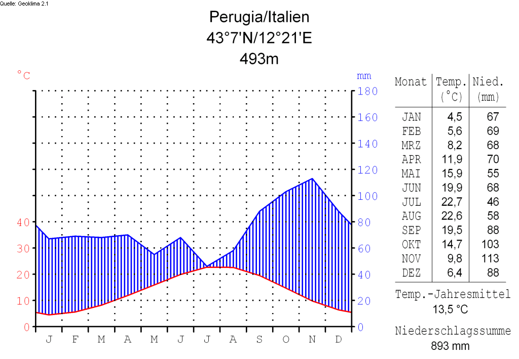 climate chart in the format by Walter and Lieth, metric, °Celsisus and millimeters, made with Geoklima 2.1